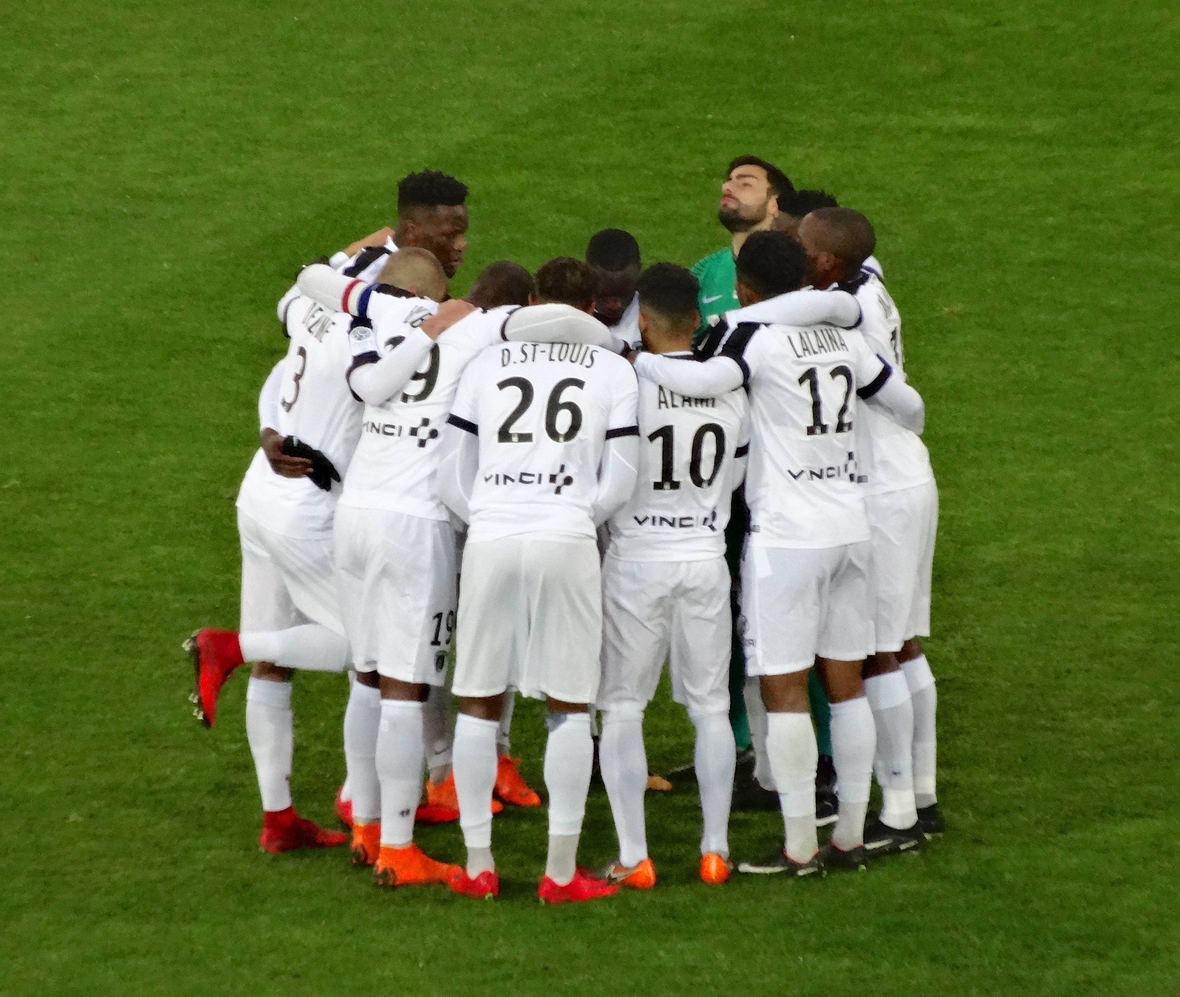 Paris FC 2018